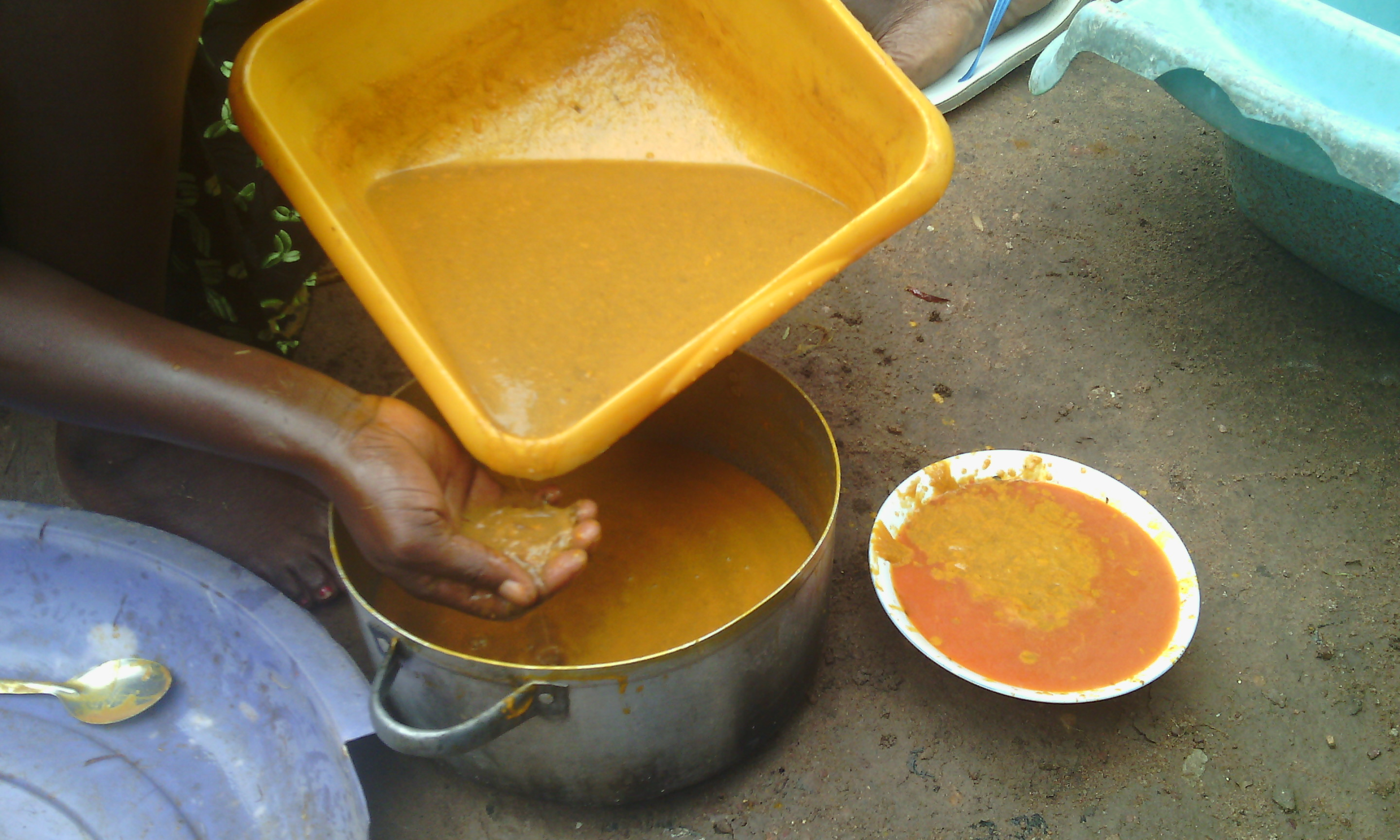 Palm Kernel is a natural fruit from palm tree, we use palm kernel in production of palm oil, and palm kernel oil which are both used in cooking and making of cosmetics products such as soaps, cream, and many more. This is an image from Nigeria